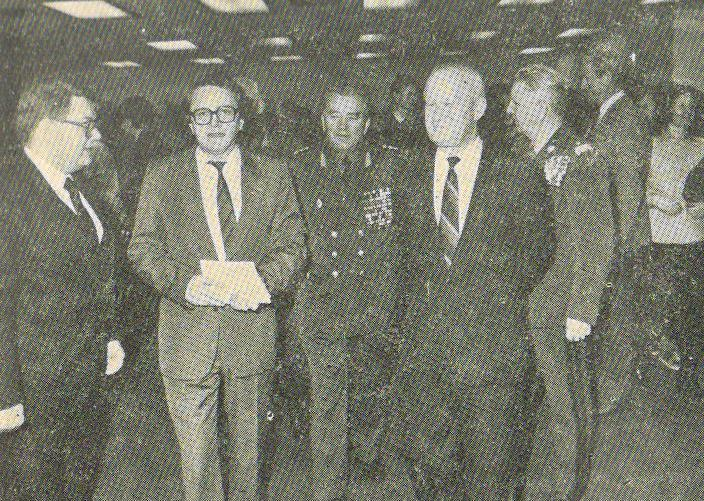 General Jozef Baryla at the conference commemorating the 90th birthday of Polish and Soviet Marshall Konstanty Rokossowski, Warsaw 1986